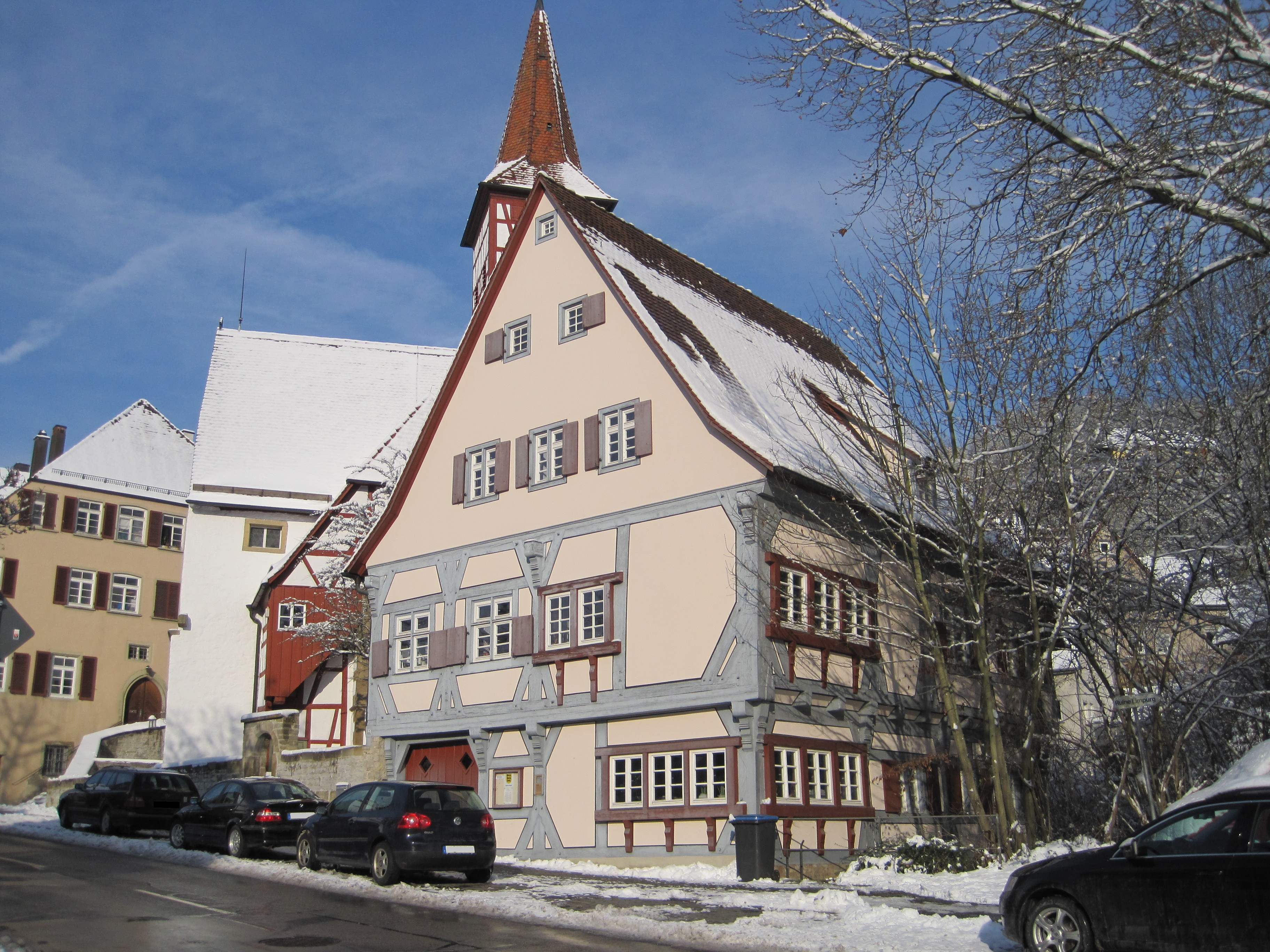 Photo of Gothic house in Schwaebisch Hall, Germany